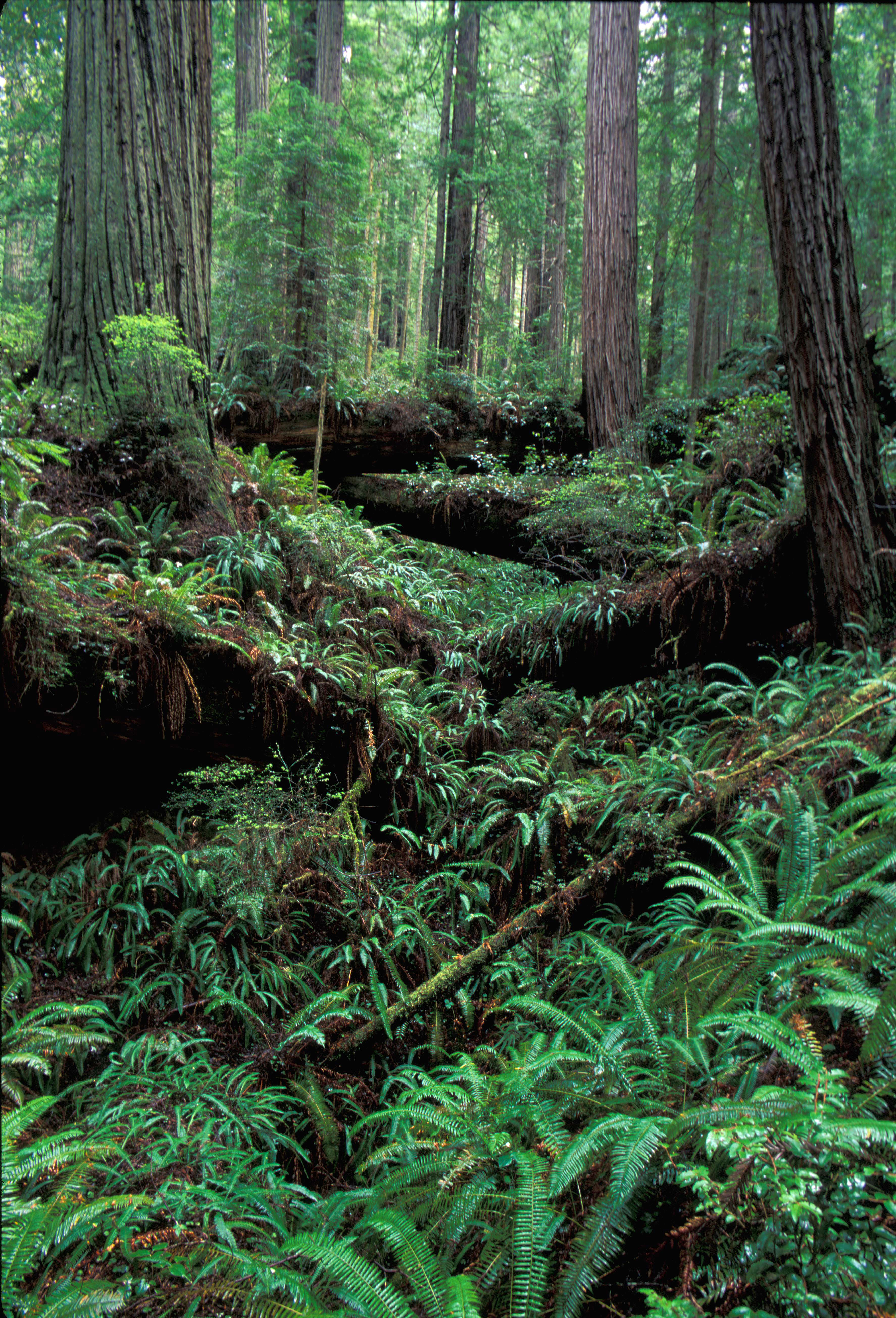 The Headwaters Forest Reserve is 7,472 acres of public land located 6 miles southeast of Eureka, CA. The reserve is set aside to protect and preserve the ecological and wildlife values in the area, particularly the stands of old-growth redwood that provide habitat for the threatened marbled murrelet, and the stream systems that provide habitat for threatened coho salmon. For more information visit: Photo: Bob Wick, BLM